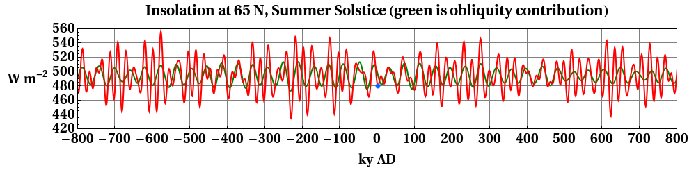 Past and future daily-average insolation at 65 N, on day of summer solstice. Blue dot is current condition, 2 ky A.D.